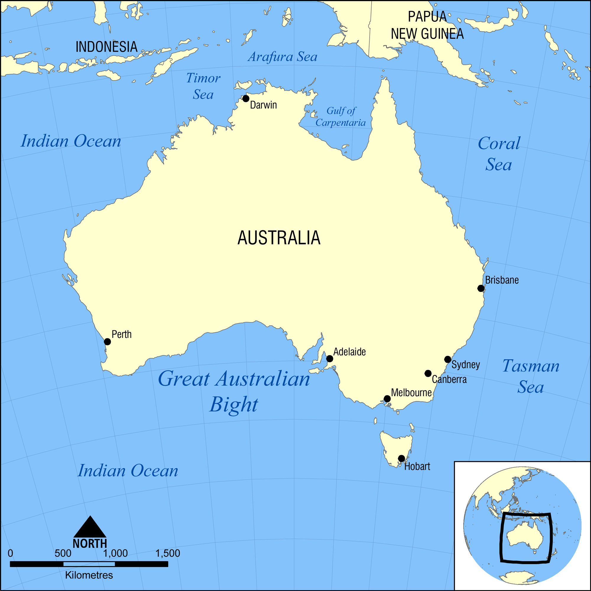 Map showing the location of the Great Australian Bight, a body of water south of Australia. Nearby bodies of water include the Indian Ocean, Antarctic Ocean, and Tasman Sea.